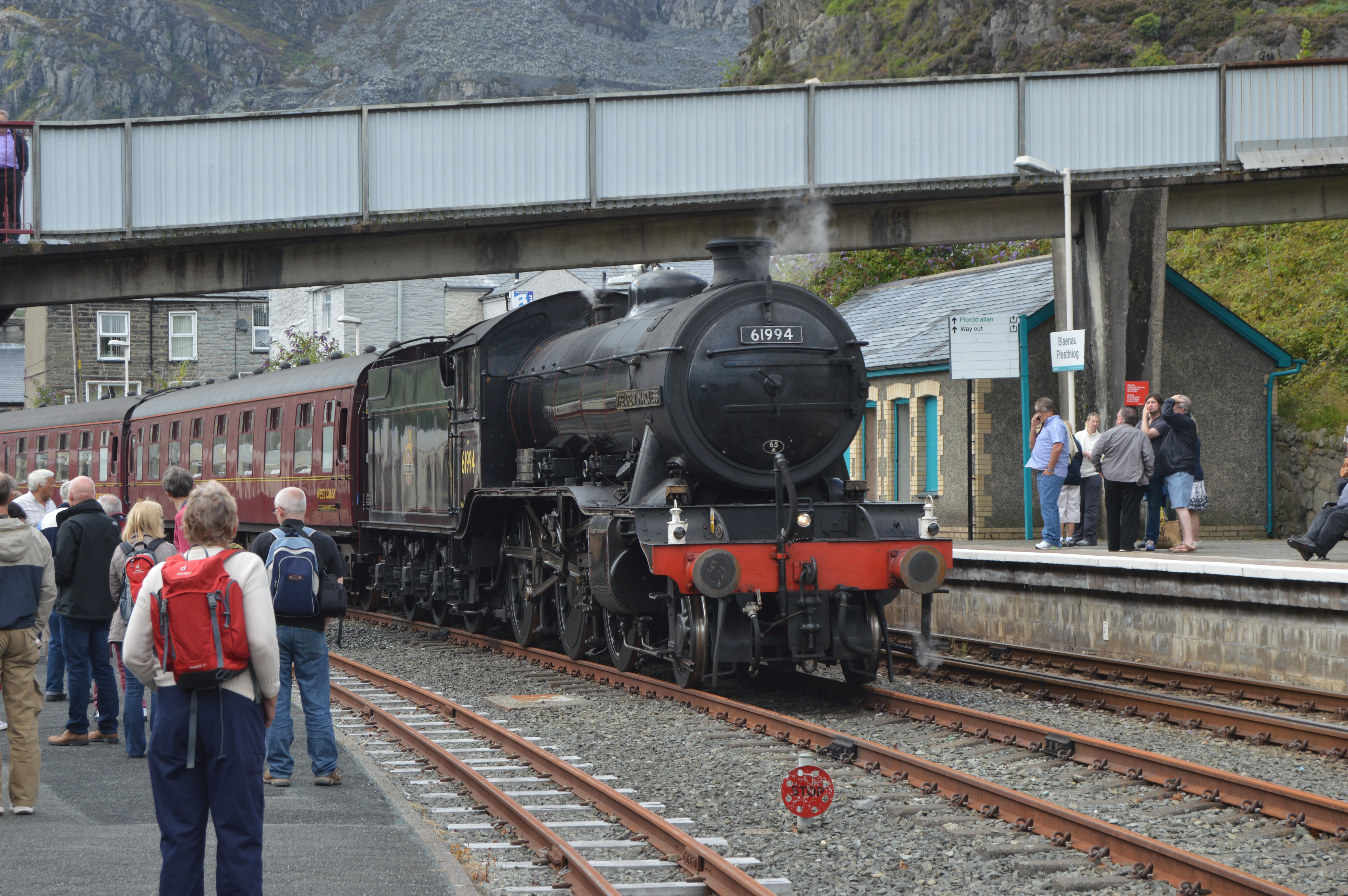 61994 The Great Marquess resting at Blaenau Ffestiniog.